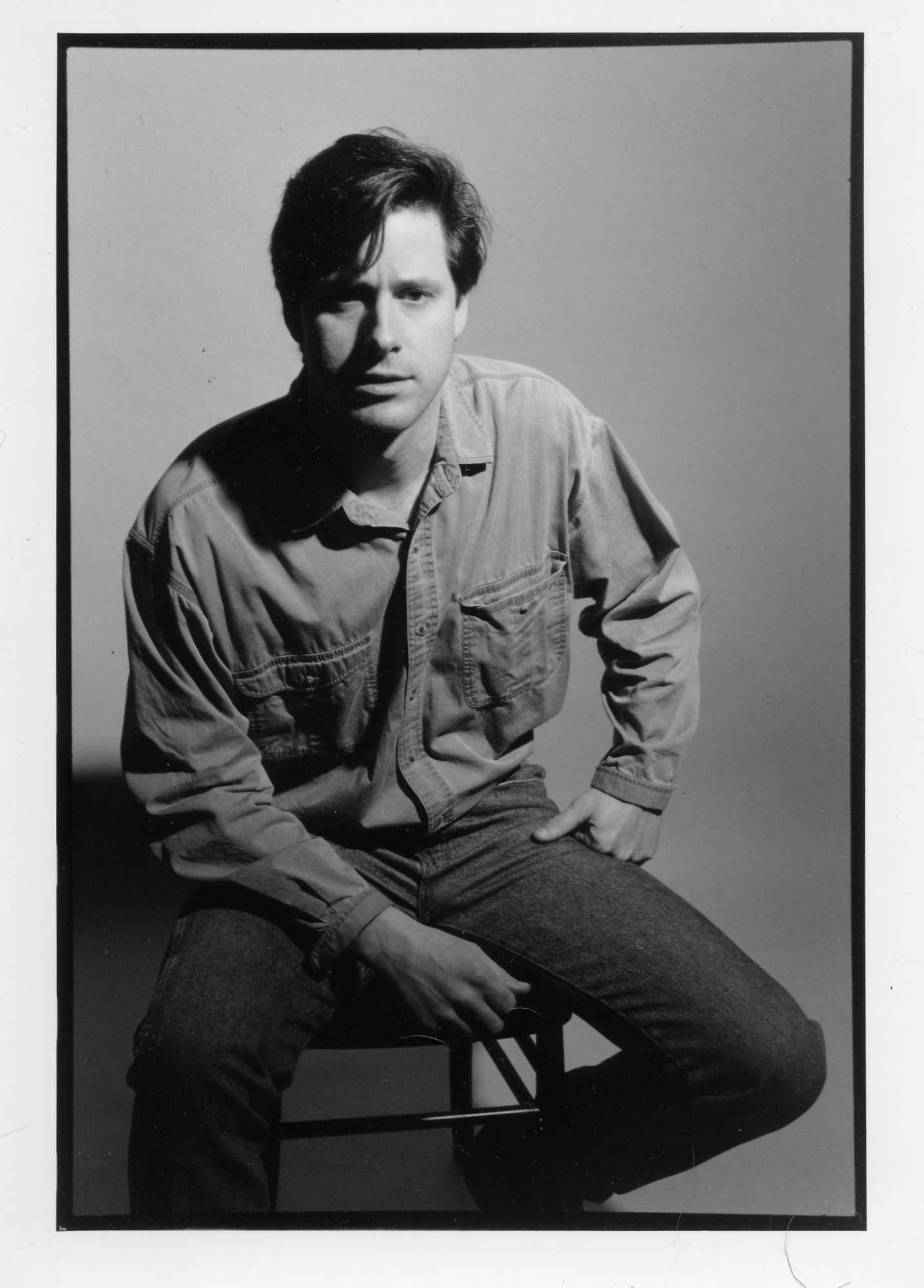 Jim Sikora photographed by Richard Kern, 1995